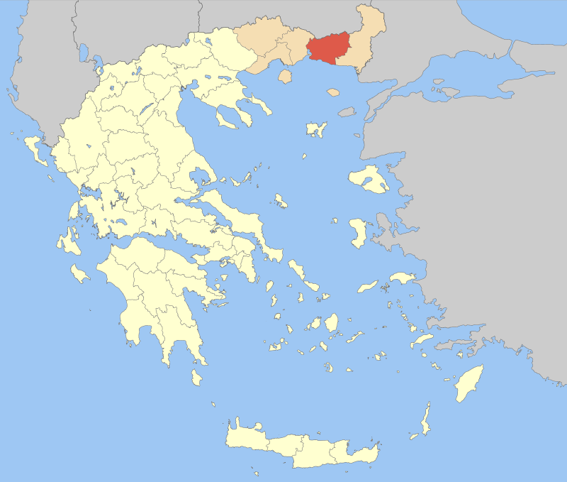 Locator map of Rodopi prefecture (Νομός Ροδόπης) in Greece